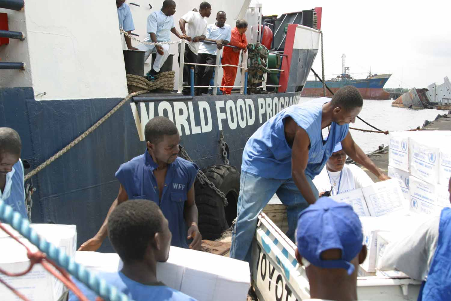 The Martin, a World Food Programme ship unloads pallets of high energy biscuits at the Freeport of Monrovia on Bushrod Island in Liberia on August 15, 2003 as U.S. Marines from 26th Marine Expeditionary Unit (Special Operations Capable) secure the area during the Second Liberian Civil War.